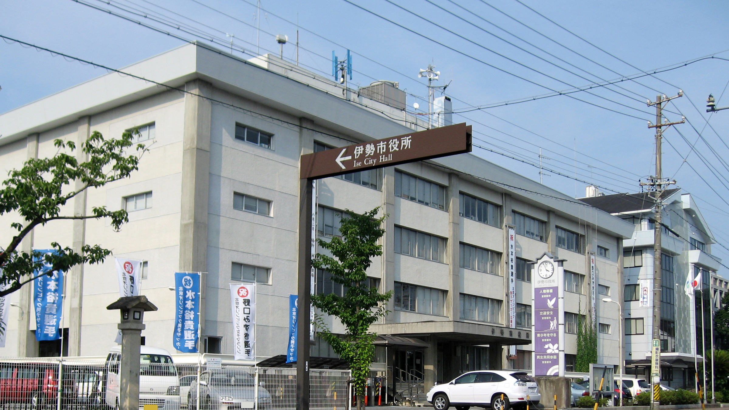 Ise cityhall 伊勢市役所 三重県伊勢市岩渕で撮影